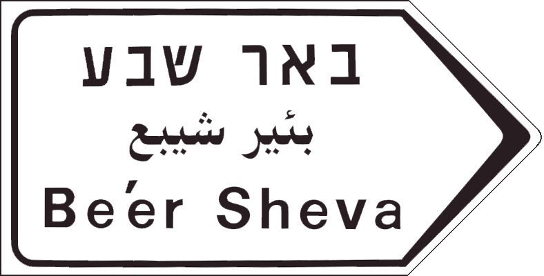 Example of an Israeli sign for Be'er Sheva